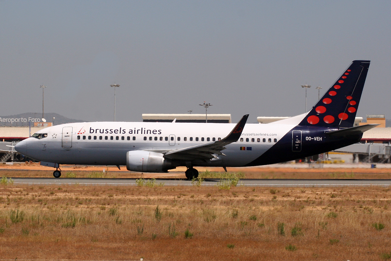 Brussels Airlines Boeing 737-300 @ Faro Airport